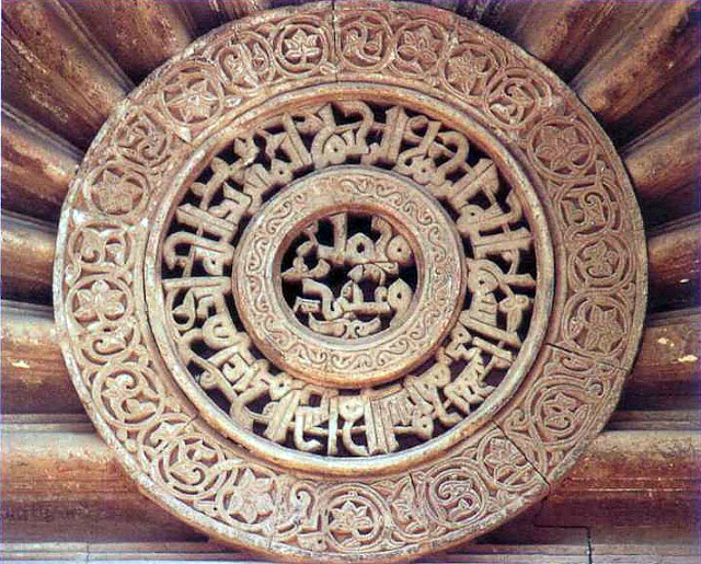 Nabi and Wasi